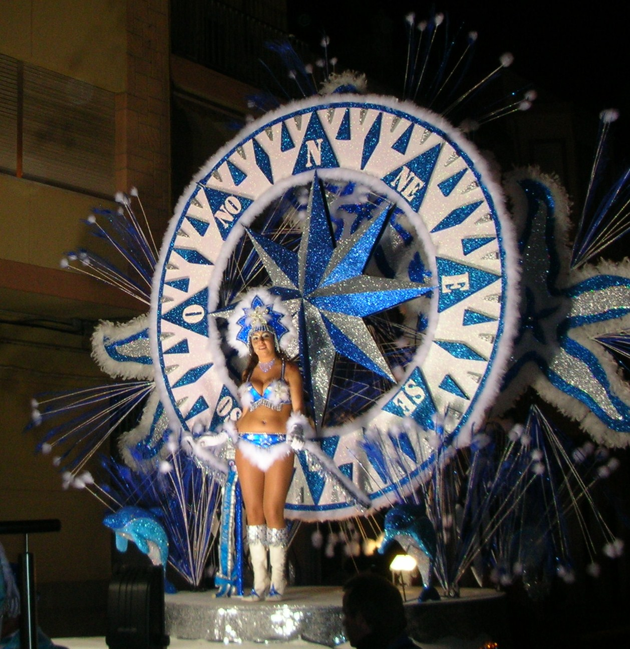 Carnival celebration at Vinaròs 2010. One of the floats.